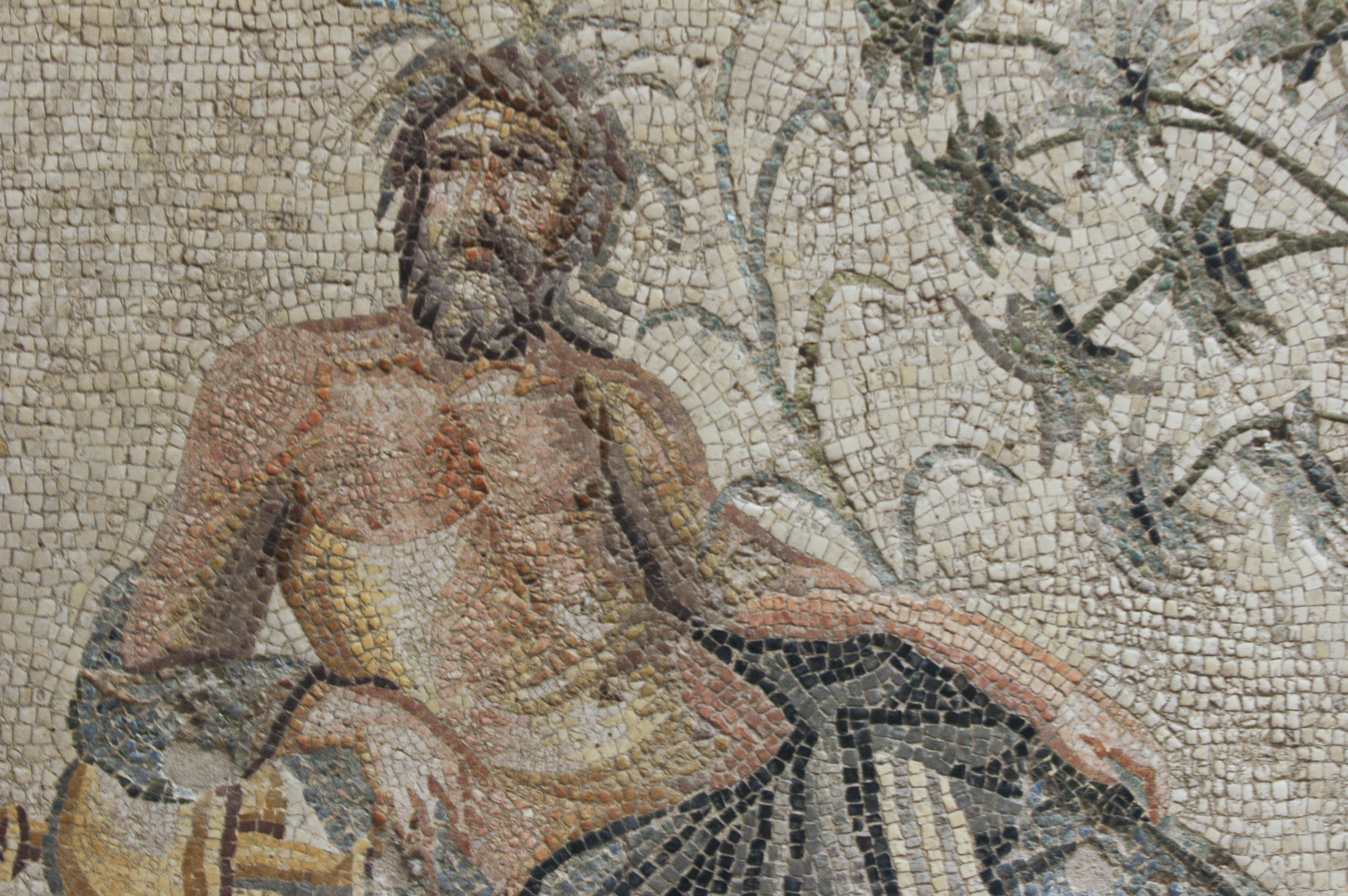 There is a mosaic with a central water god and two nymphs on either side. I have no further information. This is the water god.